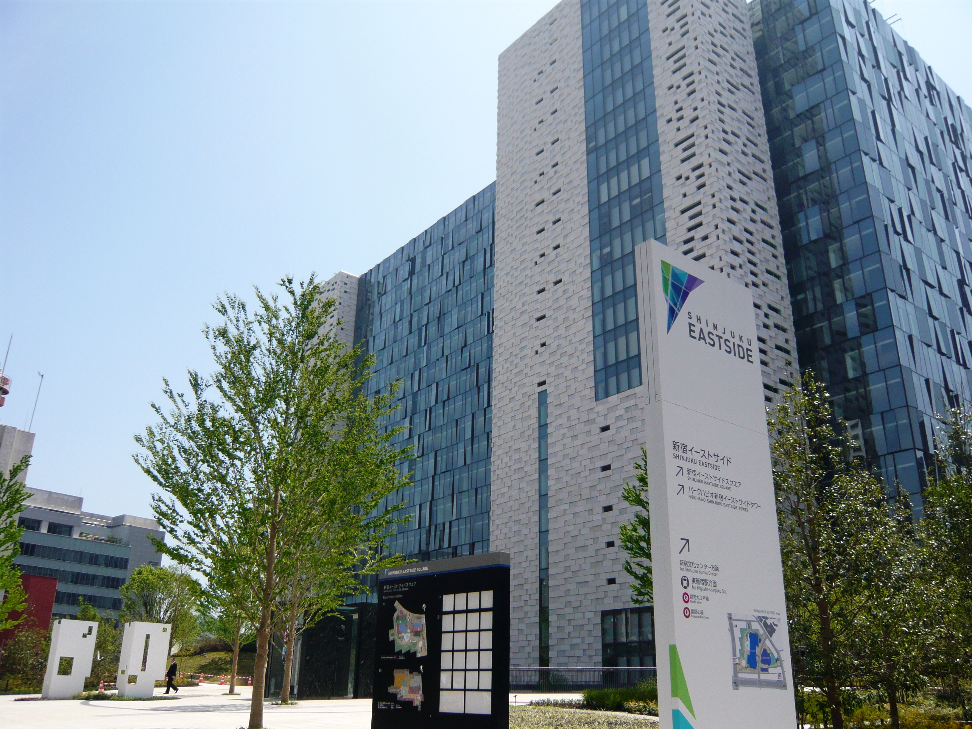 Shinjuku Eastside Square Date: 04.29.2012